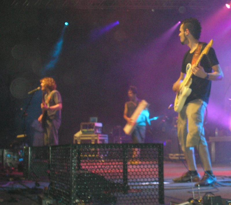 Picture of Oficina G3 performing at a gig in Vitória, Brazil.